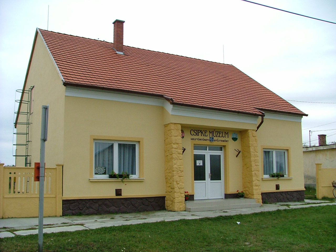 Lace museum in Hövej